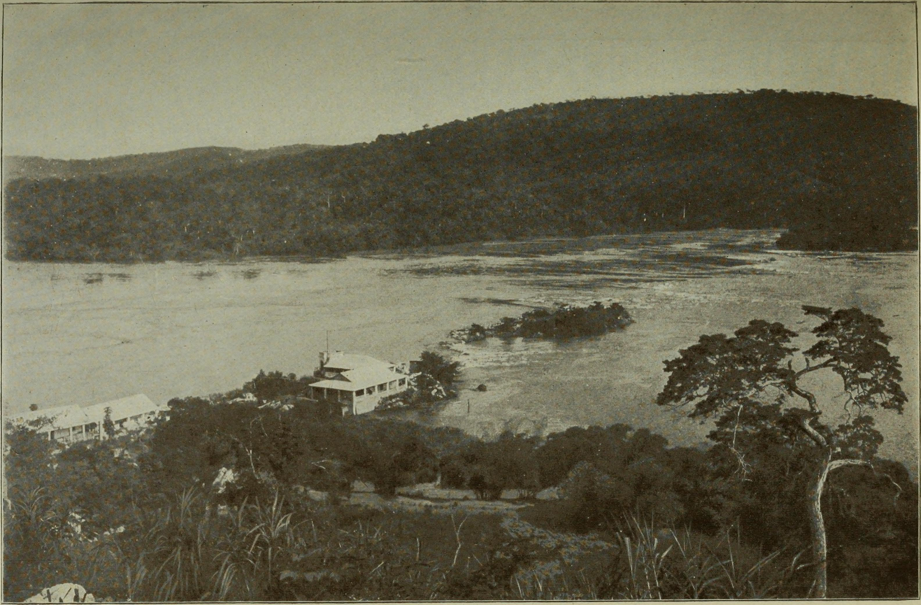 View of the rapids and on our lodging at Bangi Title: From the Congo to the Niger and the Nile : an account of The German Central African expedition of 1910-1911 Year: 1913 (1910s) Authors: Adolf Friedrich, Duke of Mecklenburg-Schwerin, 1873-1969 Deutsche Zentral-Afrika-expedition, 1910-1911 Subjects: Publisher: London : Duckworth Text Appearing Before Image: were caught every day on the steamer in largequantities. Their blood was at once microscopicallyexamined, but not in one single case was a trypanosomaidentified. And yet the inhabitants were many ofthem infected, and in a surprizing number of casesenlarged glands might be observed. On the 13th of September, we at length came to anend of this hot voyage, the thermometer every dayregistering 99° F. in the shade. (Illus. 1.) The same afternoon we reached Libenge on theBelgian bank, two days journey from Bangi. Here DrHaberer, Dr Schubotz, Schmidt, and I left the Valerie,in order to work for three weeks in the forest and neigh-bouring plains. In spite of the friendly assistance ofCommandant van der Cruyssen, we found great difficultyin obtaining bearers. With much trouble we managedto obtain fifty men, of whom twenty ran away againduring the night, thus needlessly delaying our start.This small number of carriers being naturally insuf-ficient for our baggage, we sent the rest of it on by Text Appearing After Image: CO c CO .5 *co T3O